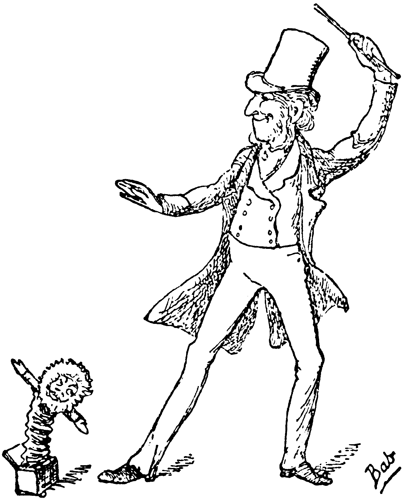 W. S. Gilbert drawing of the title character in The Sorcerer.